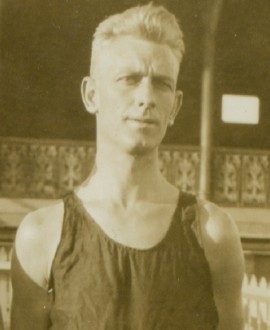 Photograph of Bert Everett in 1930